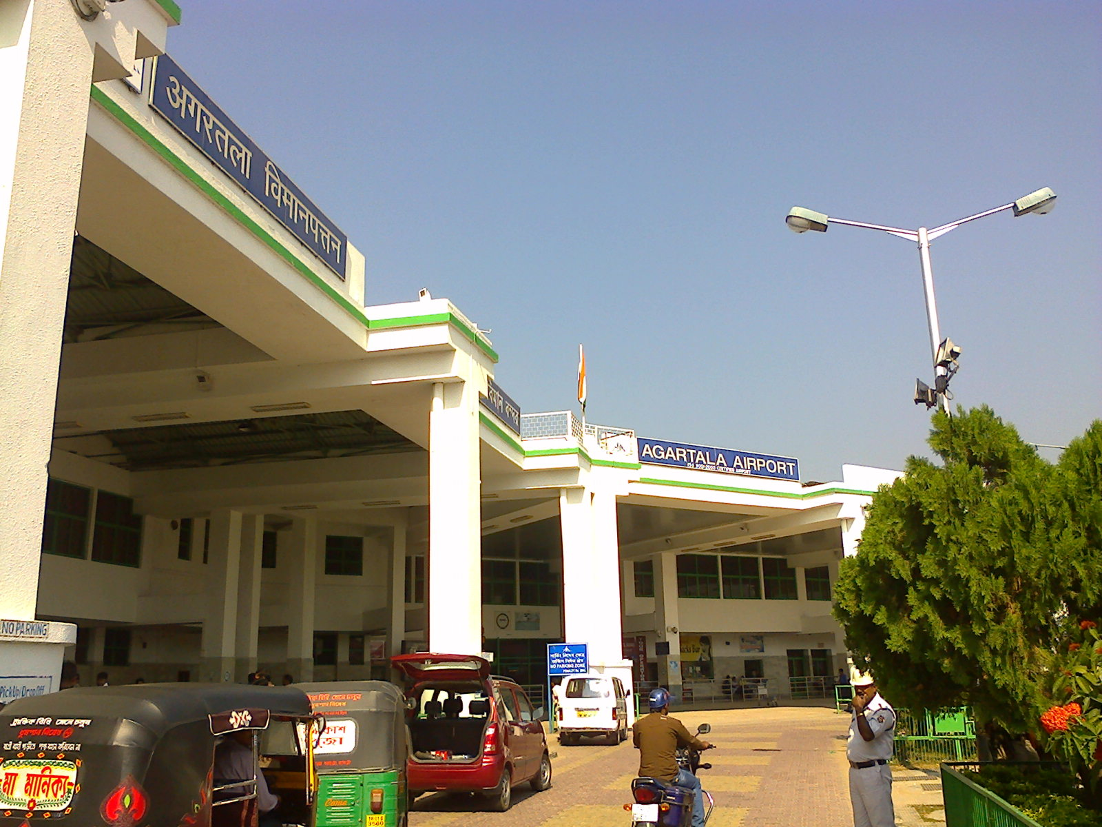 Departure Terminal of Agartala Airport